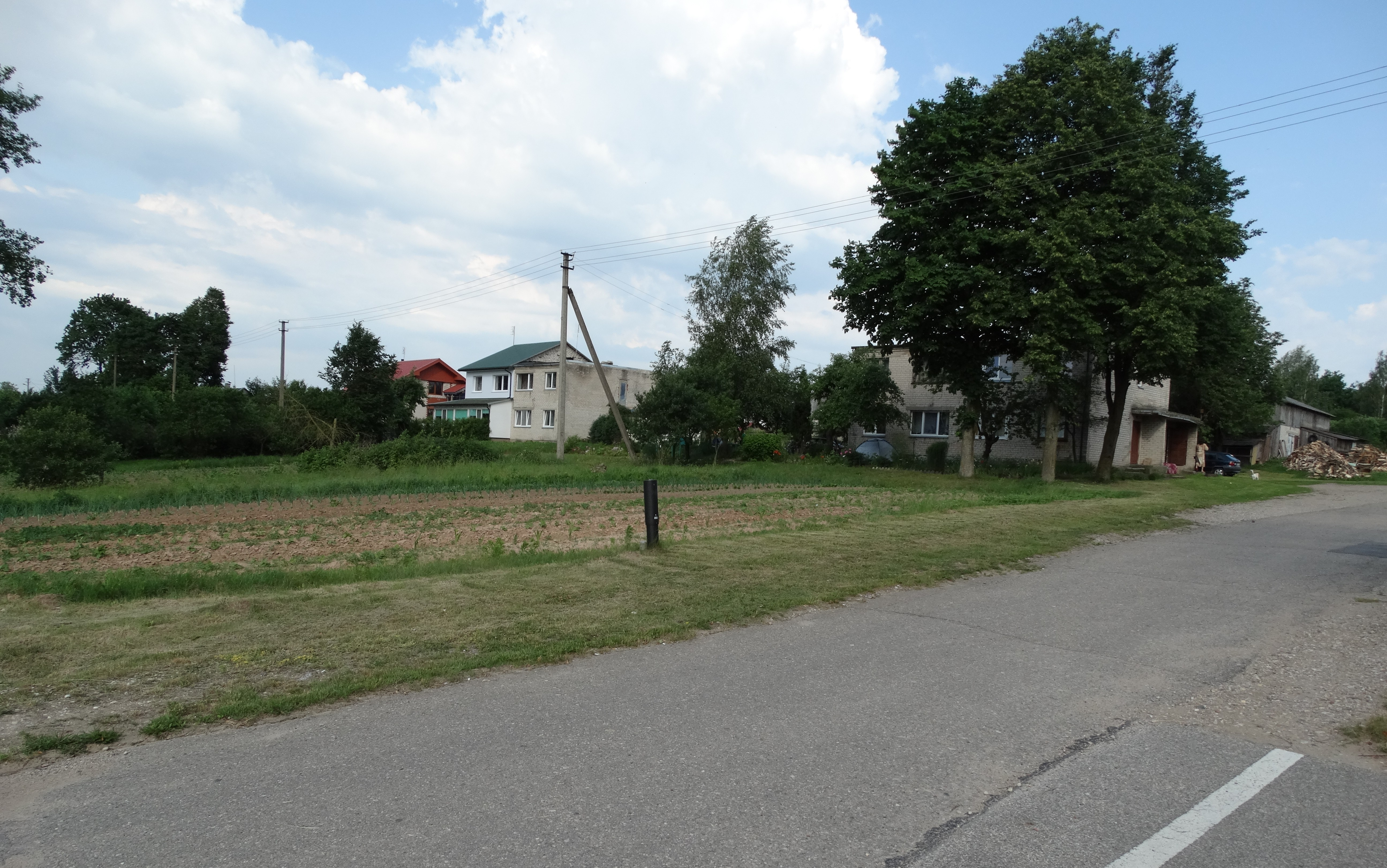 Šilai, Jonava district, Lithuania